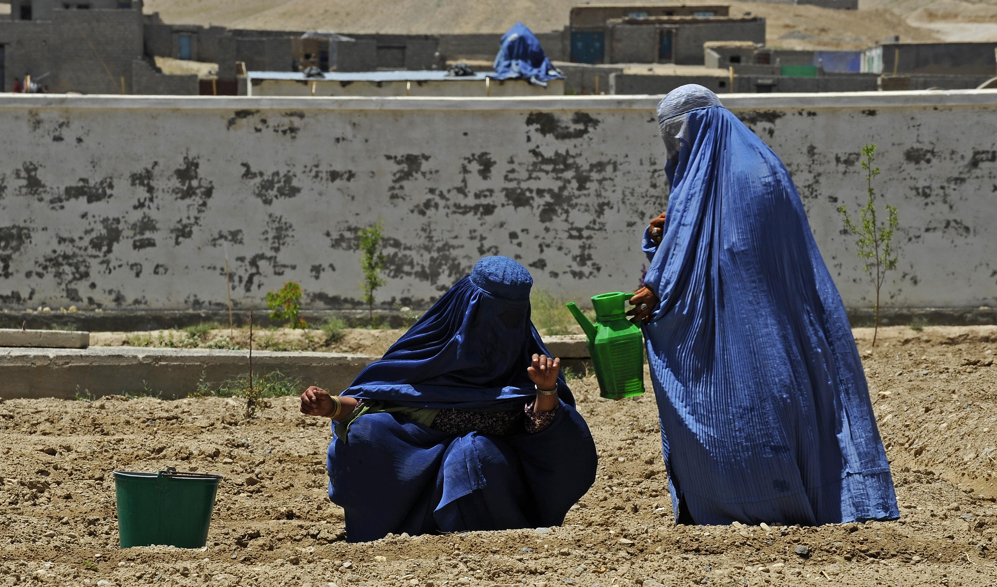 Two Afghan women water the soil at the Qalat Department of Women's Affairs, Zabul province, Afghanistan, May 8. (U.S. Air Force photo/Staff Sgt. Brian Ferguson)(Released)